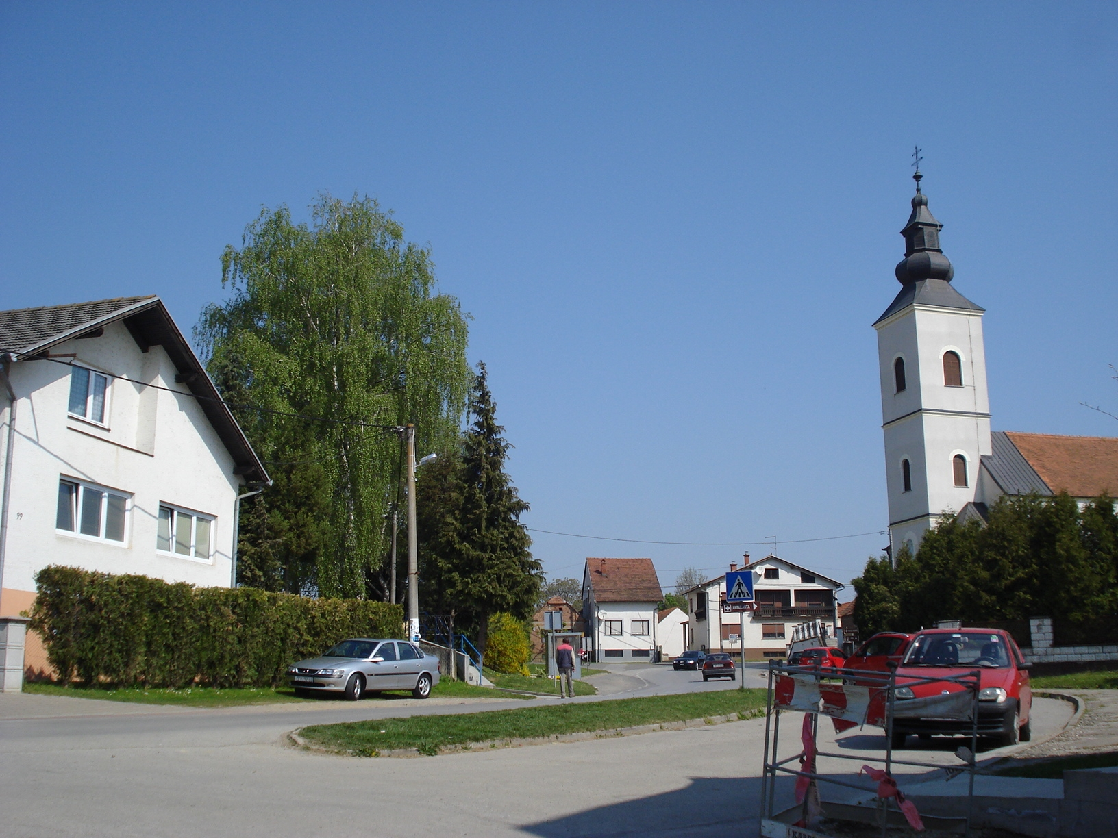 Belica (Medjimurje County, Croatia) - centre of the village